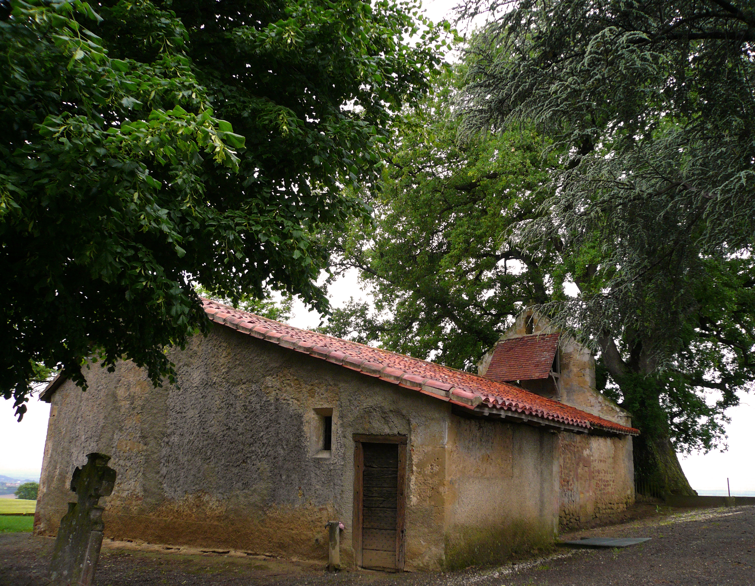 Old Chapel in Saint-Elix-Theux (Gers, France)